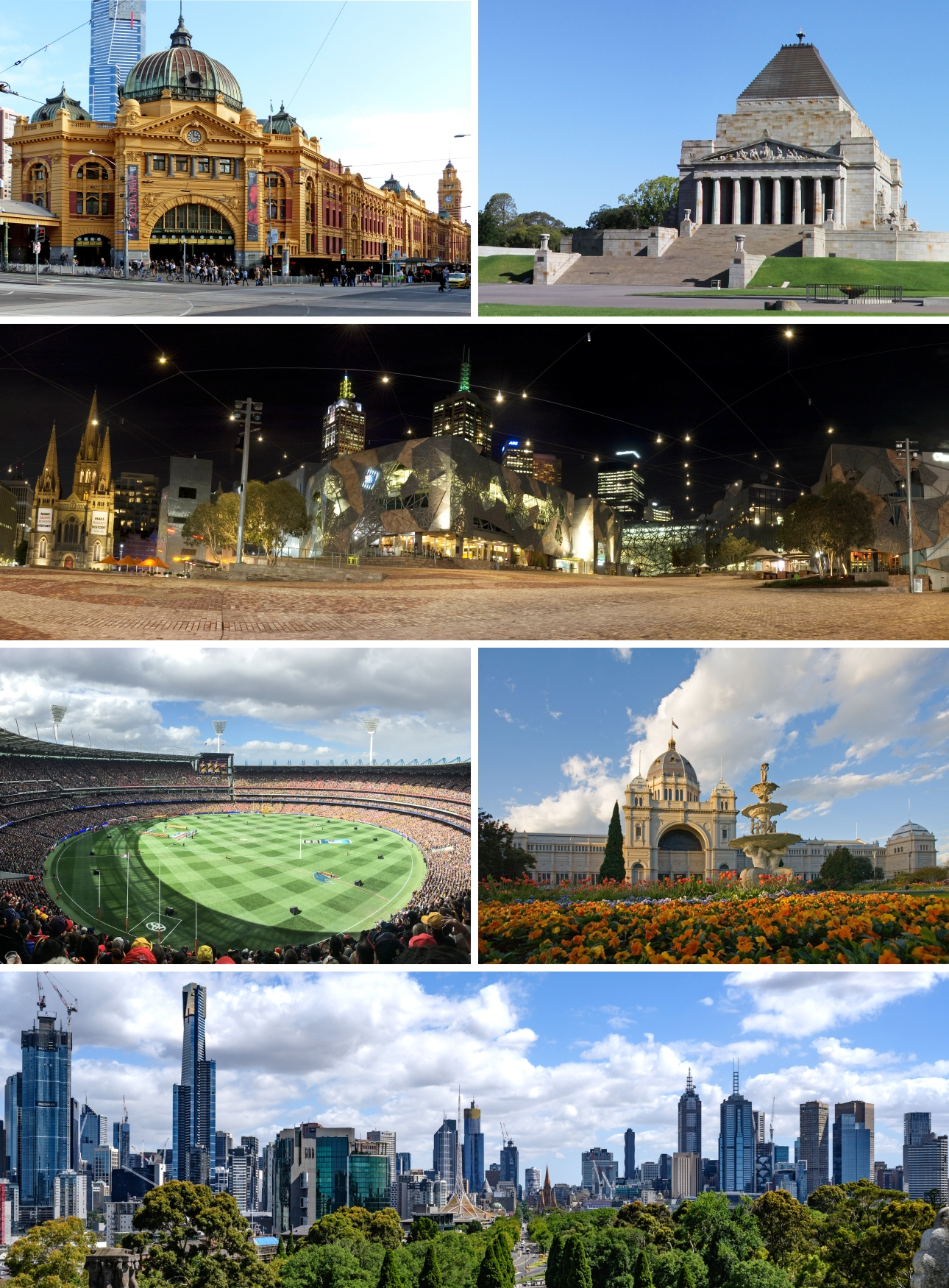 Montage of Melbourne Images from top, left to right: Flinders Street railway station File:Flinders St Station Melbourne. (20484830004).jpg Author, Bernard Spragg Shrine of Remembrance File:Shrine of Remembrance 1.jpg Author, Donaldytong Federation Square File:FederationSquare-panorama.jpg Author, Invincible Melbourne Cricket Ground from File:2017 AFL Grand Final panorama during national anthem.jpg Author, Flickerd Royal Exhibition Building from File:Royal_exhibition_building_tulips_straight.jpg Author, Photograph taken by Diliff and straightened by Ikiwaner Melbourne's skyline viewed from the Shrine of Remembrance, 2019 File:Melbourne as viewed from the Shrine, January 2019.png Author, Bengt Nyman